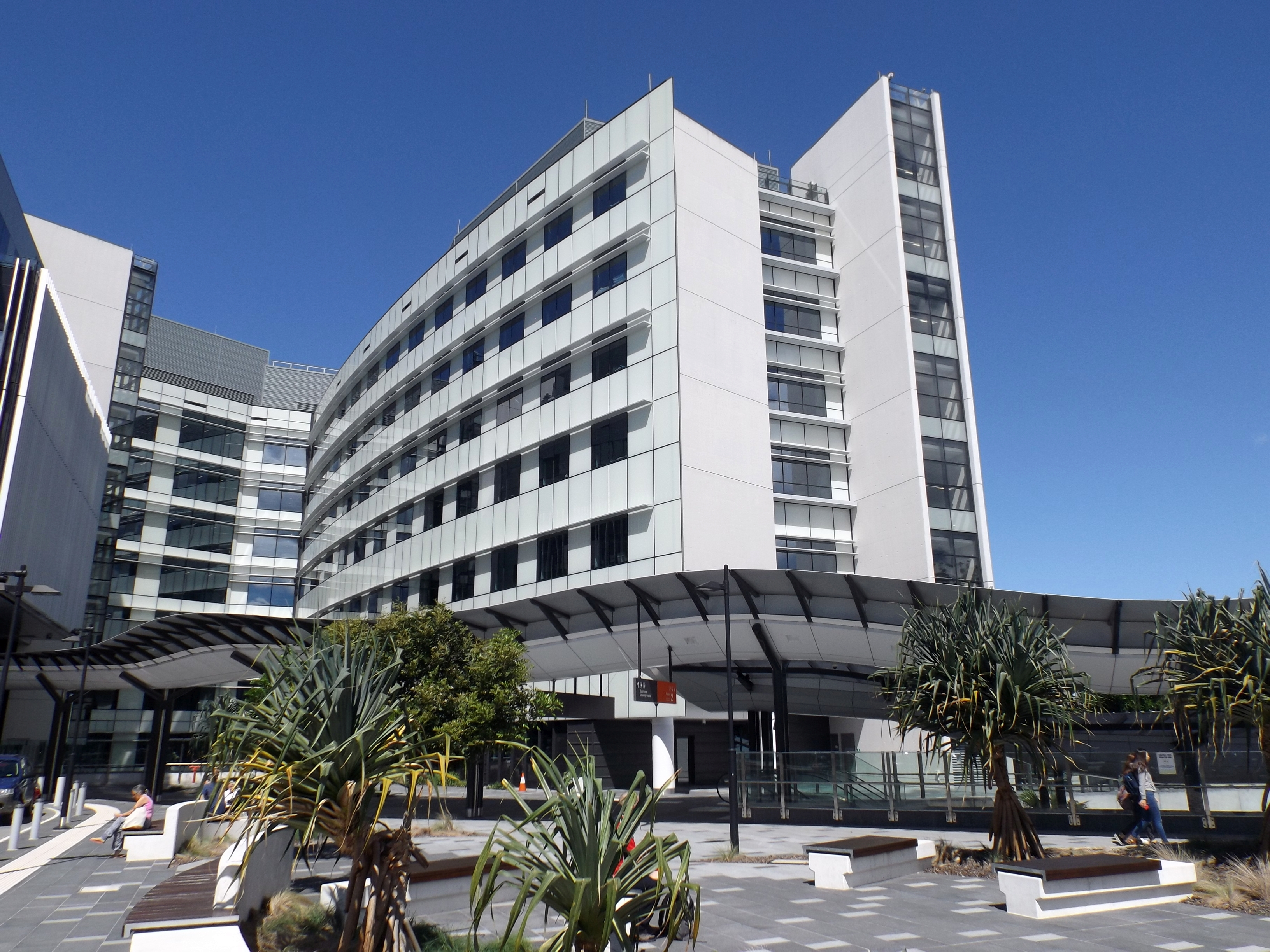 Photo of C Block West at the Gold Coast University Hospital at Southport, Gold Coast City, Queensland, Australia.